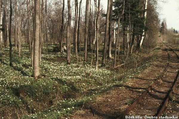 The railway track between Latorpsbruk and Garphyttan, Sweden (600 mm)